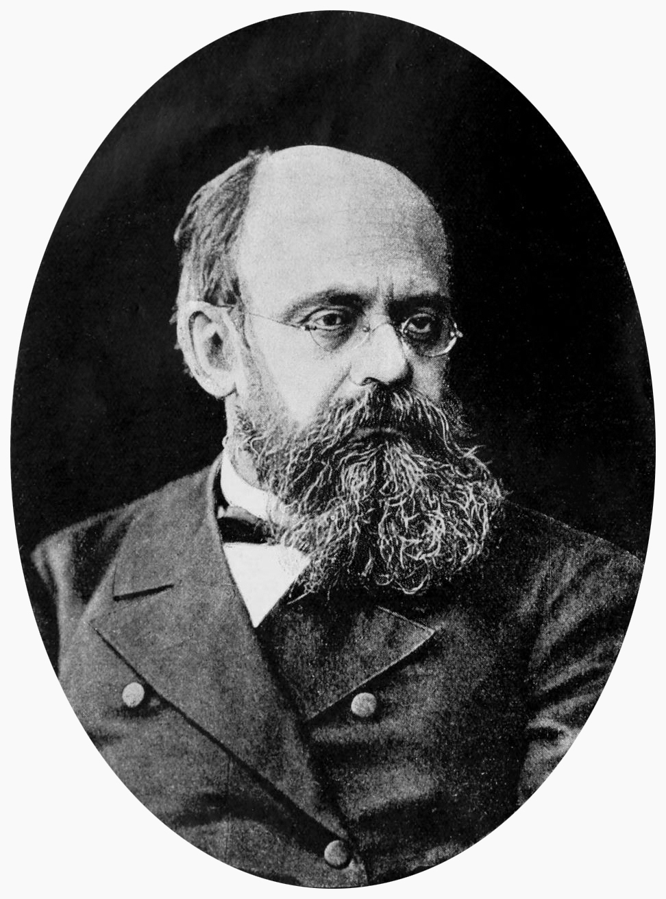 Russian literary scholar Orest Fyodorovich Miller